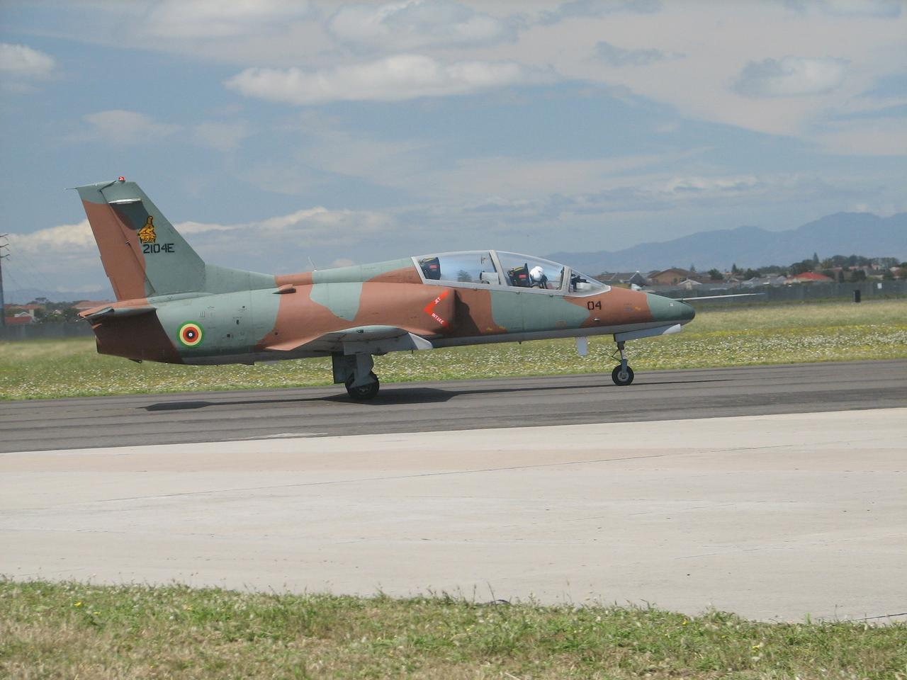 K-8 Karakorum Trainer (Air Force of Zimbabwe) at Ysterplaat Airshow, Cape Town